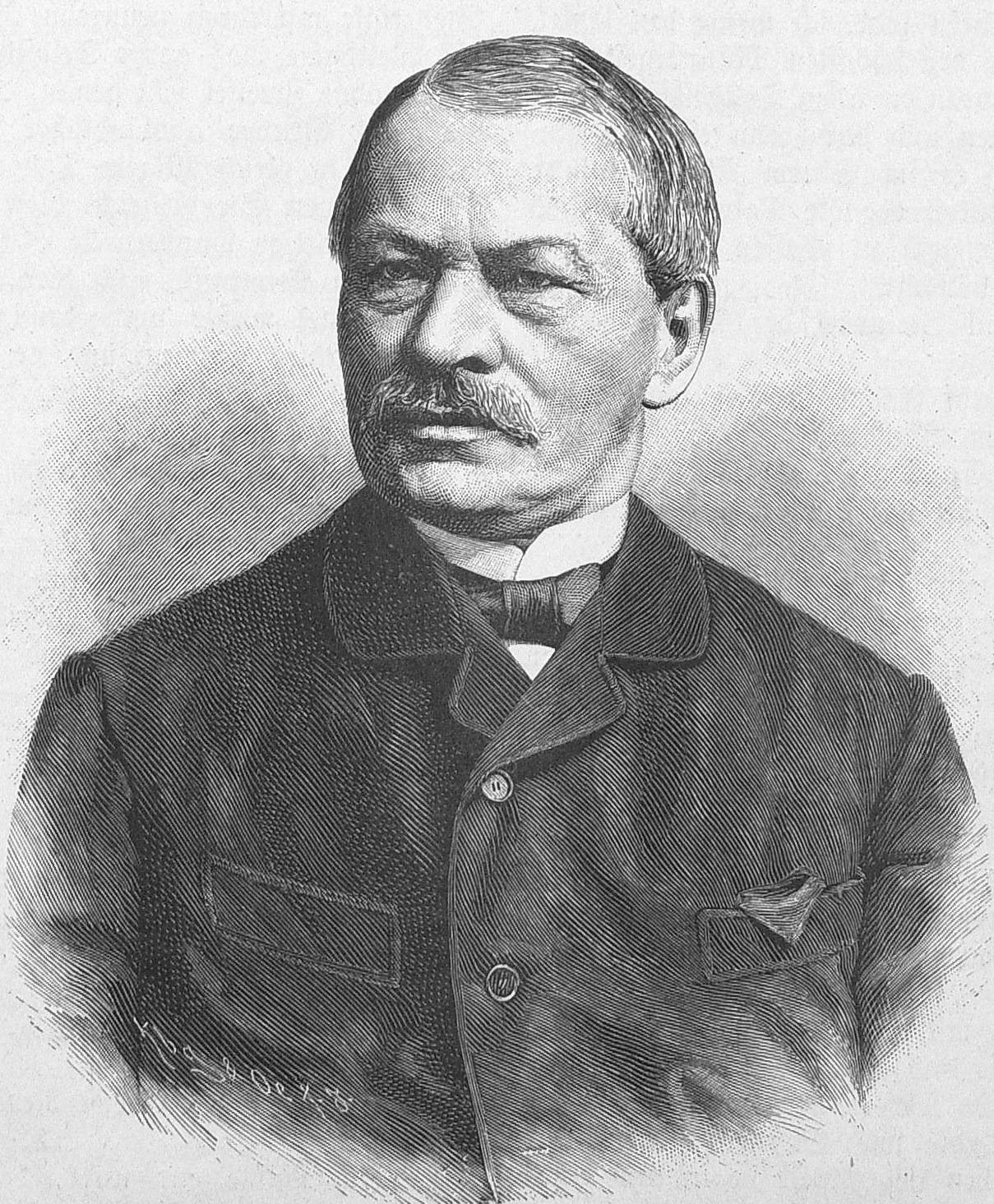 Image from page 501 of journal Die Gartenlaube, 1886.